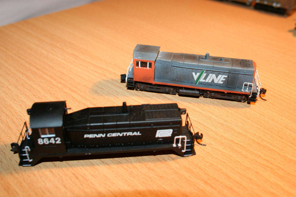 A Lifelike SW9 locomotive in N scale altered into a Victorian Railways Y class (diesel)